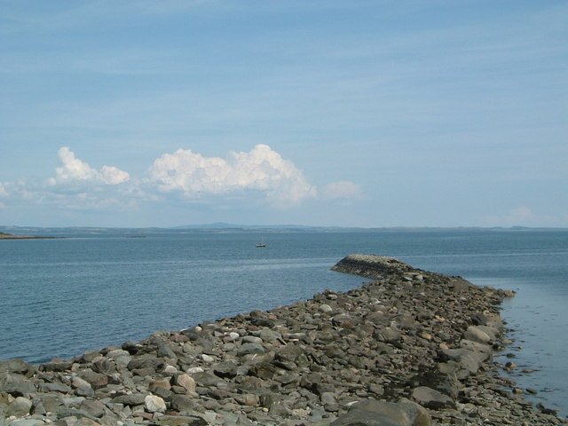 Garlieston Harbour Breakwater. The Victorian breakwater provides protection to Garlieston Harbour from waves coming from the south. To the left of the picture the tip of Eggerness Point can be seen, this shelters the other side of Garlieston Bay.